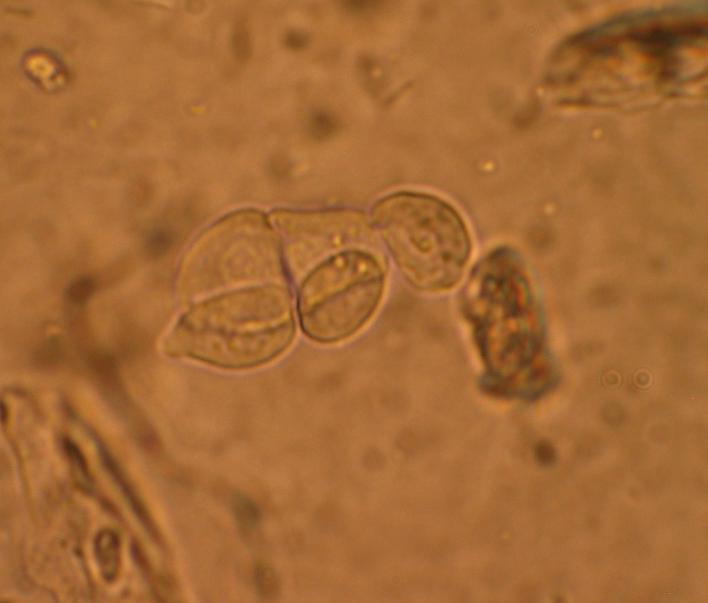 Renal tubular epithelial cells in a poorly collected urine sample.